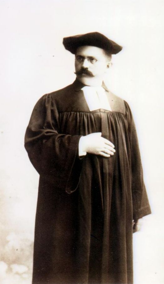 Pfarrer Paul Theuersbacher von Marienheim ALS Raiffeisengründer